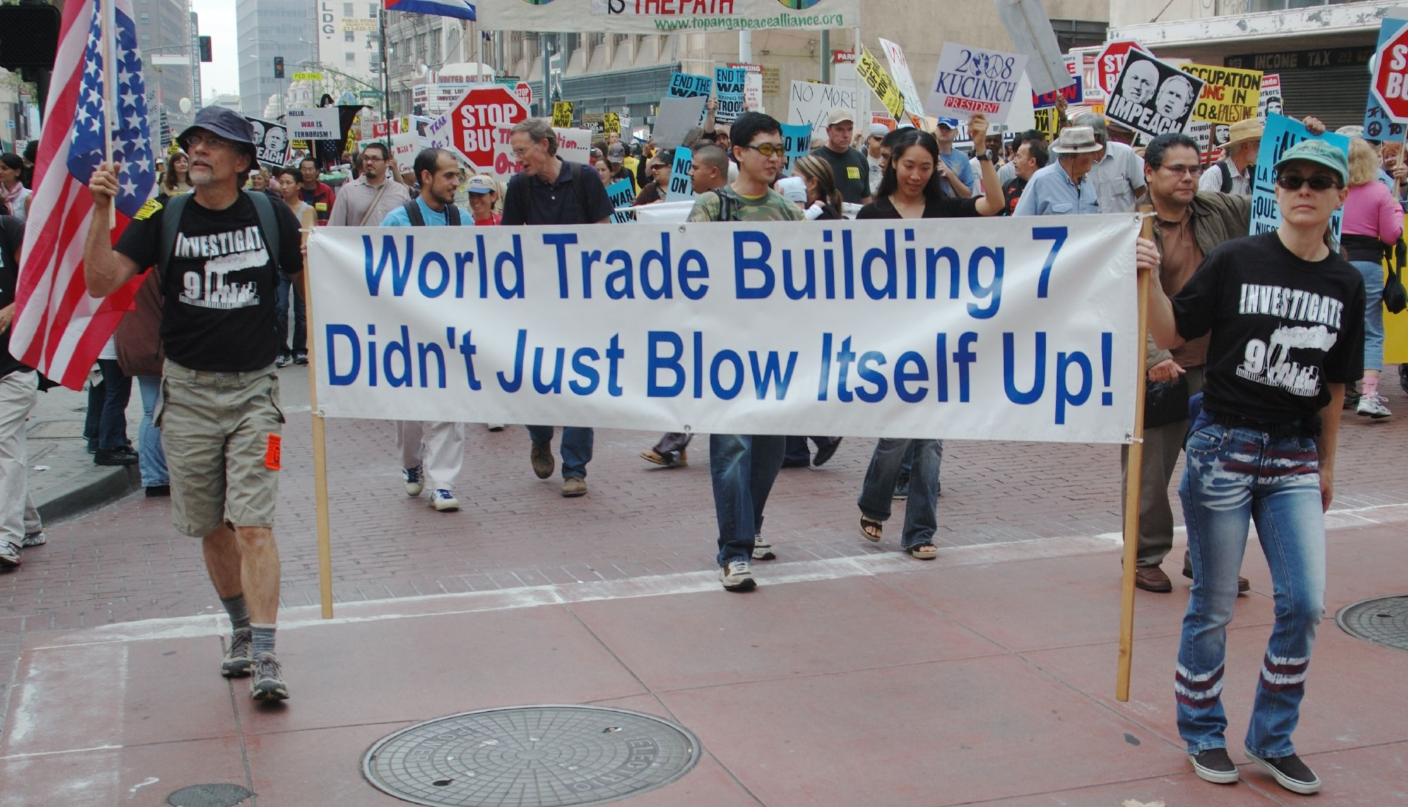 These protesters want an investigation of a 9/11 conspiracy. In anti-war protest parade, Los Angeles, California.